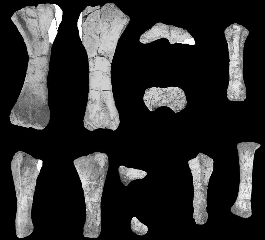 Titanosaur sauropod Aeolosaurus sp., forelimb from Salitral Moreno locality, Rio Negro, Argentina, Campanian–Maastrichtian, Upper Cretaceous. A. Left humerus (MPCA−Pv 27176), in anterior (A1), posterior (A2), proximal (A3), and distal (A4) views. B. Metacarpal III (MPCA−Pv 27174), in anterior view. C. Right ulna (MPCA−Pv 27174), in lateral (C1), posterior (C2), proximal (C3), and distal (C4) views. D. Left ulna (MPCA−Pv 27180), in lateral view. E. Left radius (MPCA−Pv 27174), in posterior view.